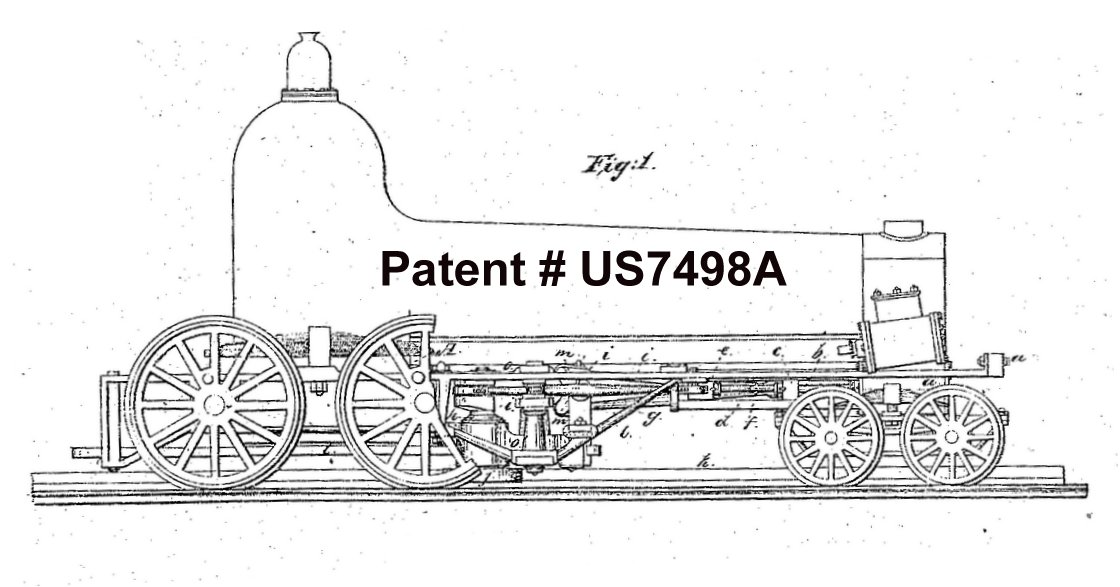 Railroad locomotive - Boiler and gearing of locomotive-engines for working heavy grades